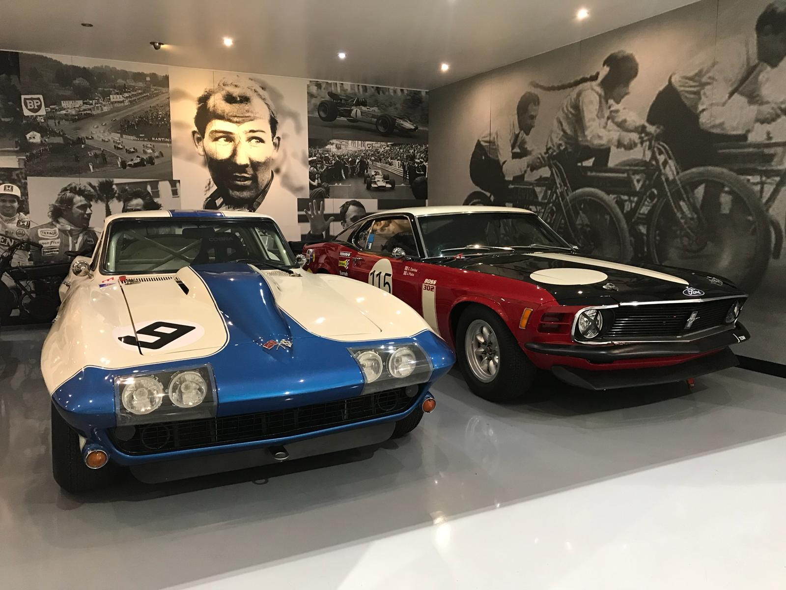 A picture taken inside the SZ Motorsport headquarters of the Corvette Stingray and Boss Mustang